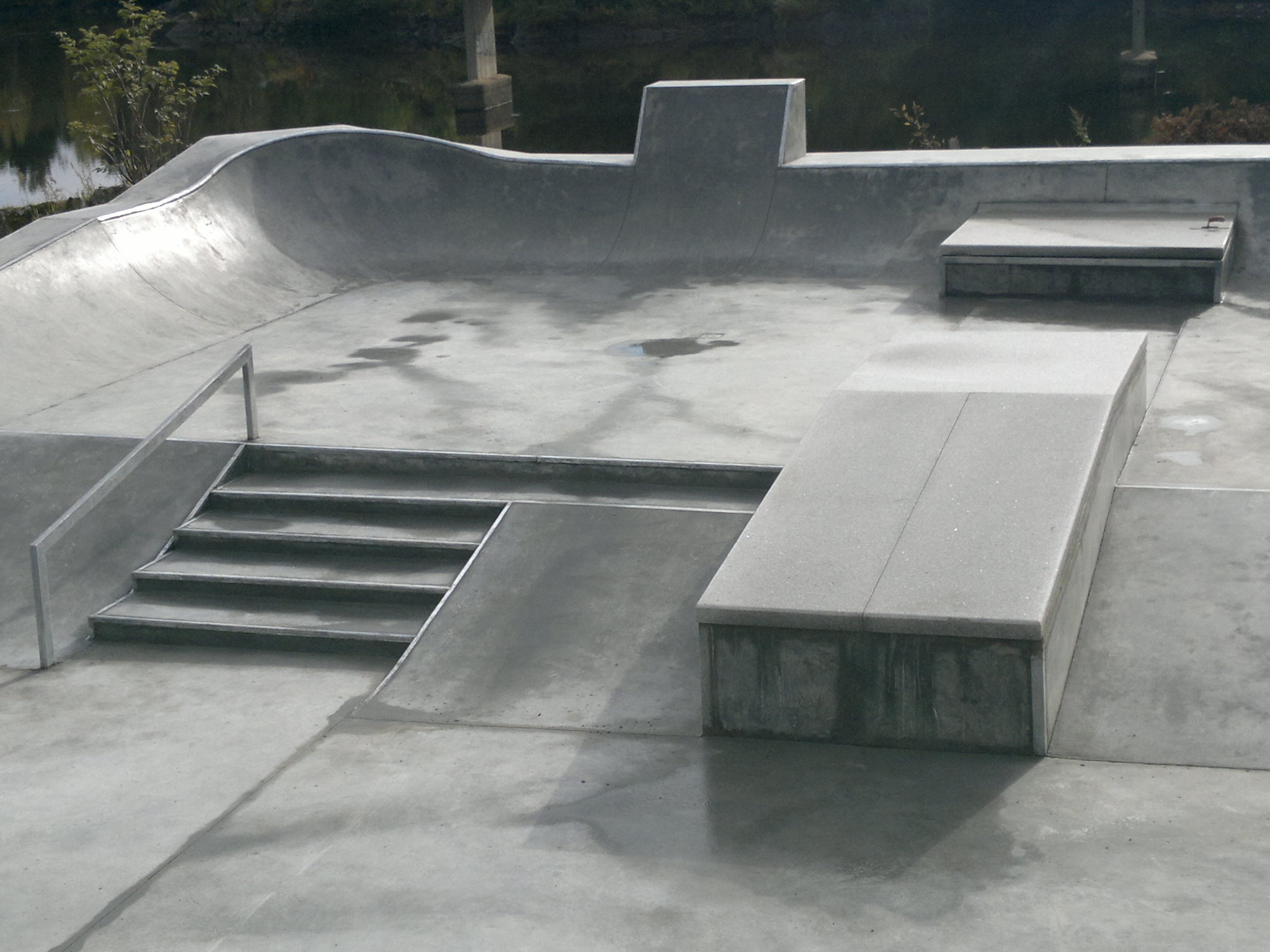 part of the streetskate area in moss skatepark designed by fritjof krogvold built in 2012